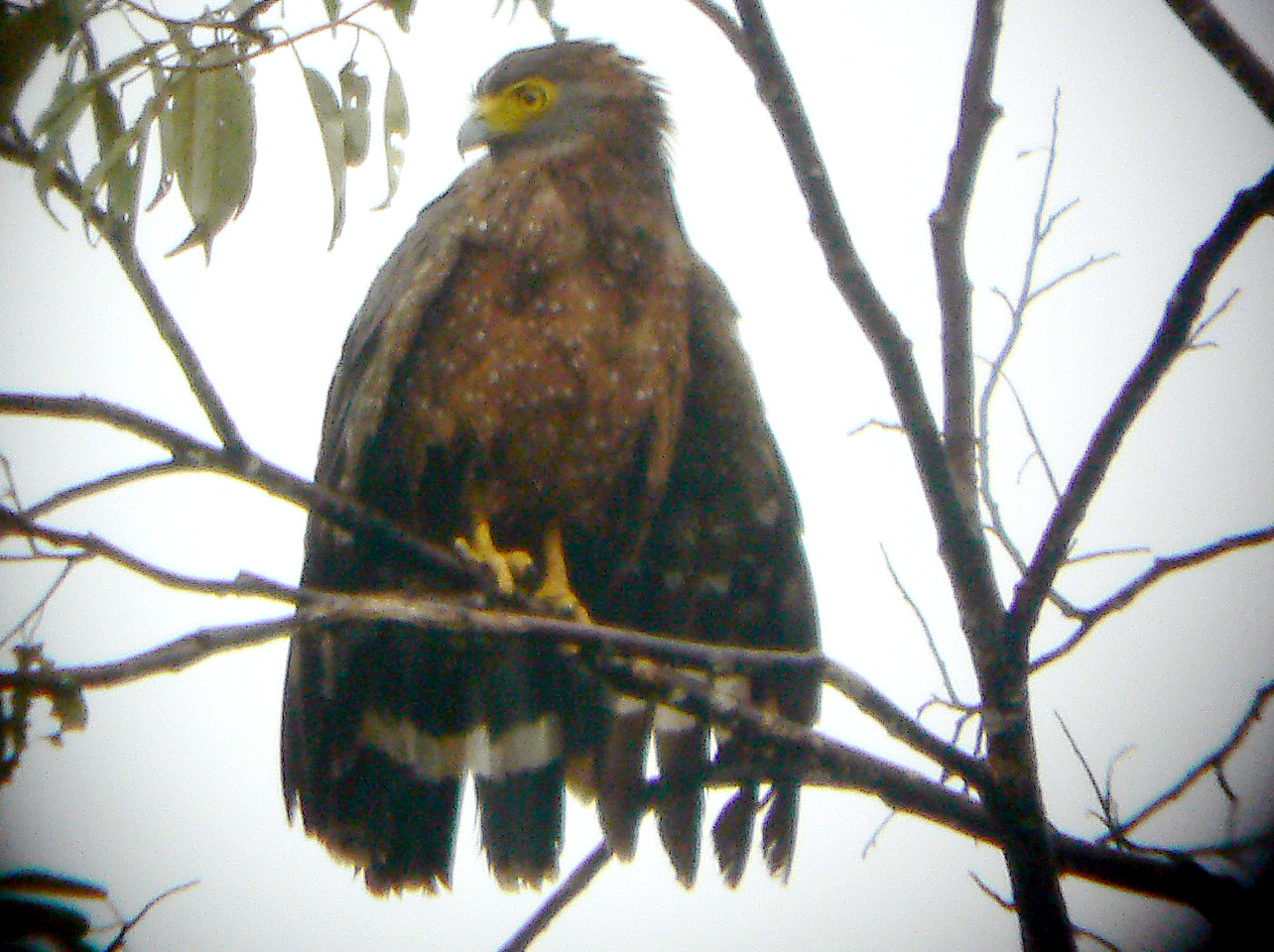 Philippine Serpent-Eagle, Spilornis holospilus, PICOP, Mindanao